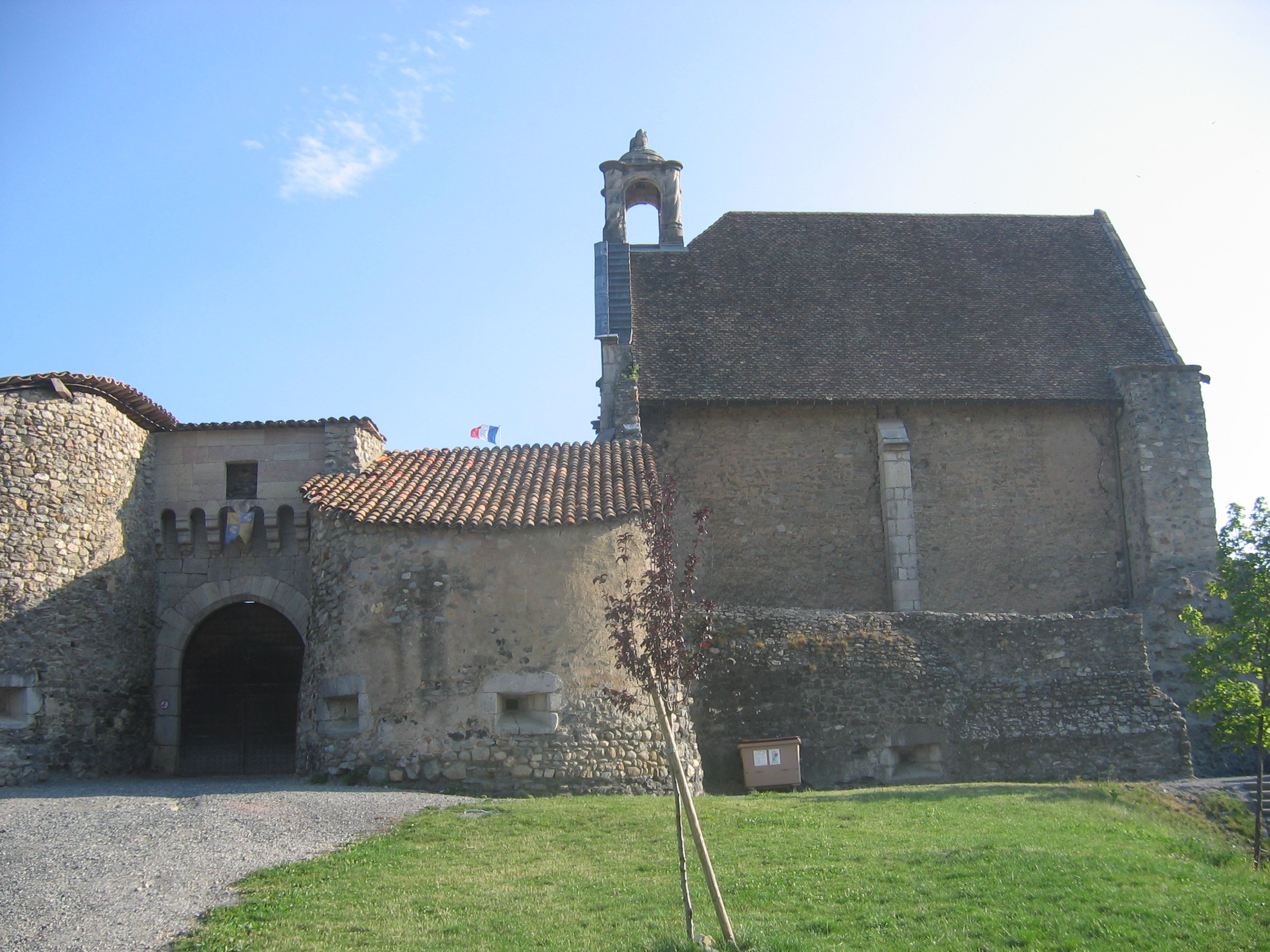 Tallard Castle